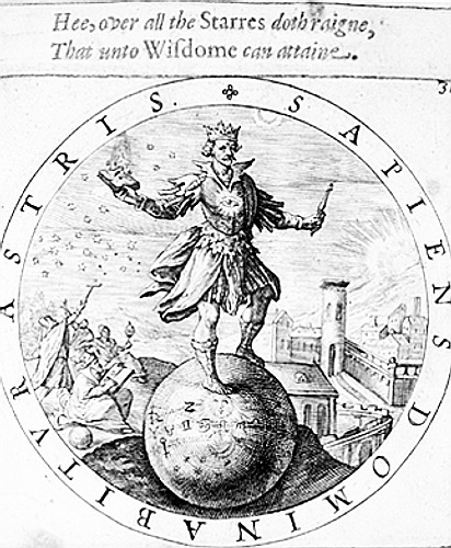 Wisdom Emblem. Text: Hee, over all the Starres doth raigne, That unto Wisdome can attaine. Sapiens dominabitur astris.